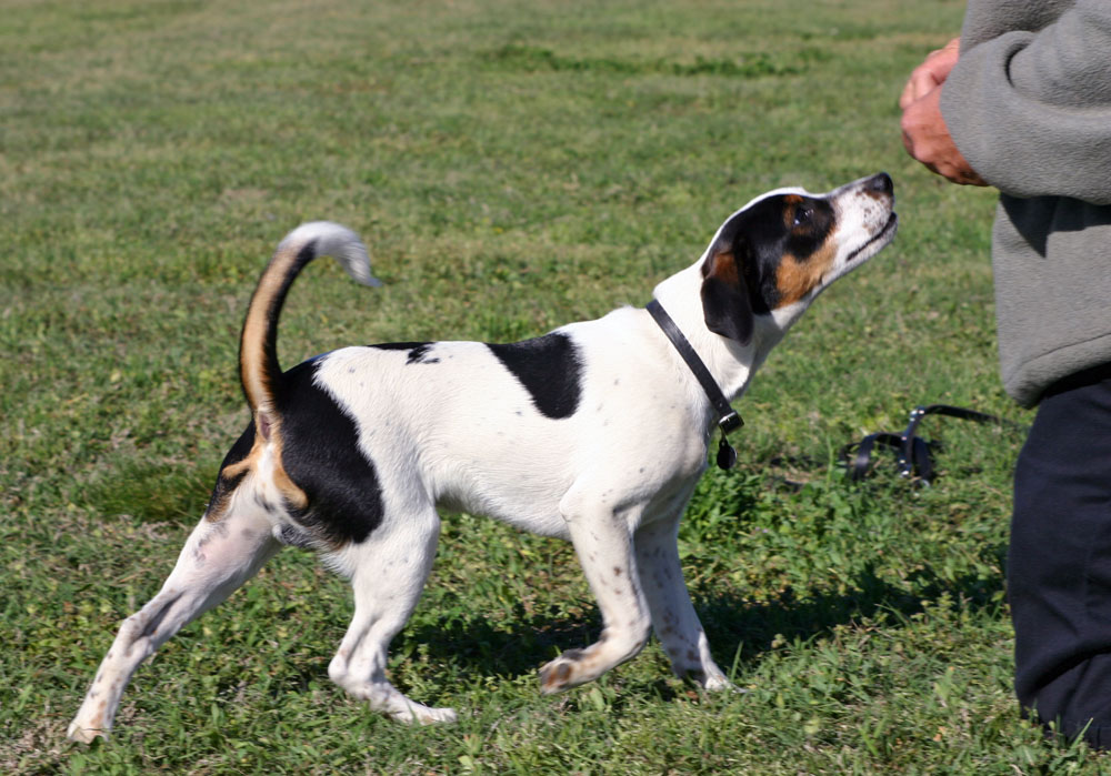 Danish/Swedish Farm Dog, Levi, a 6-month old DFD